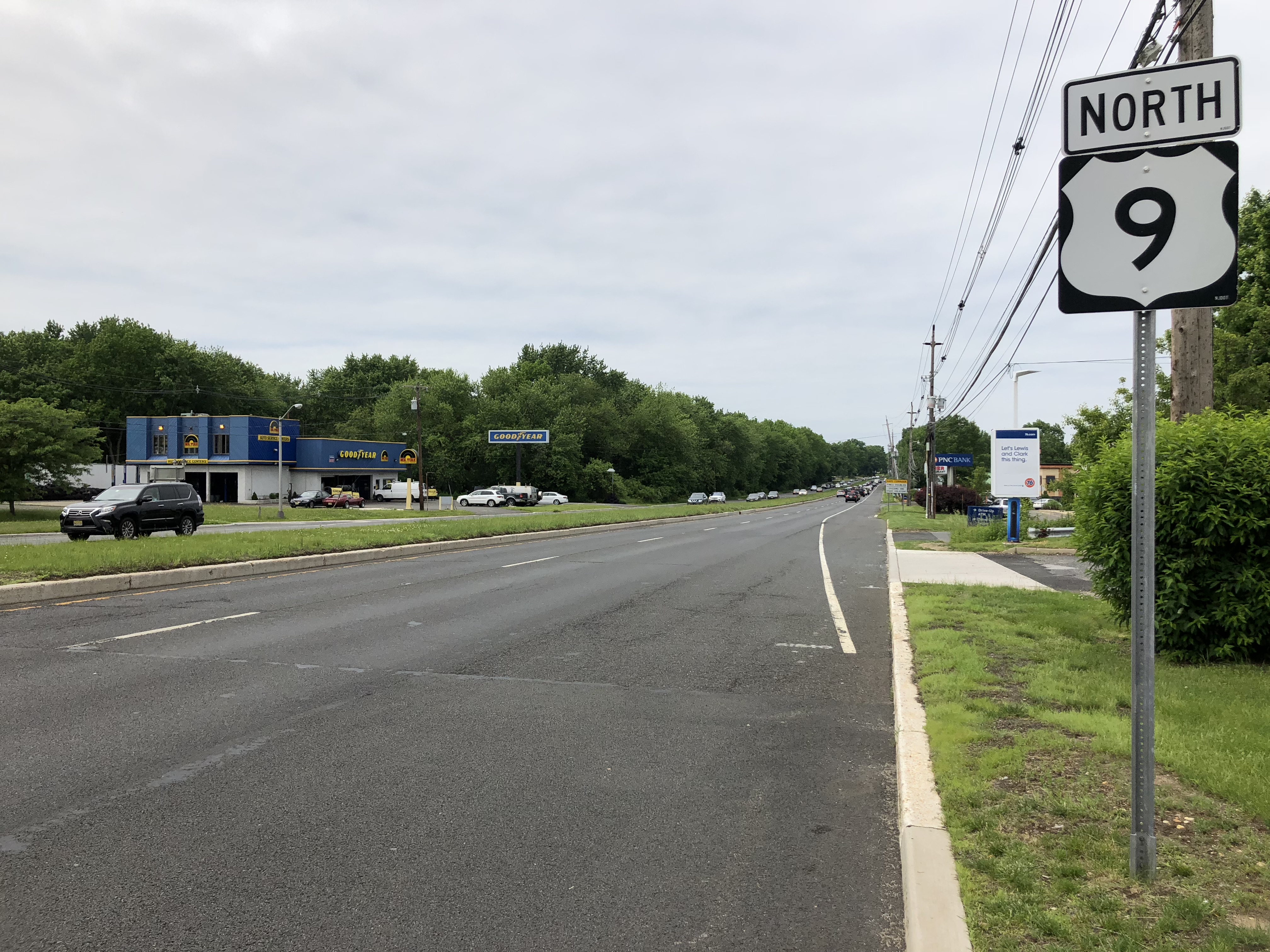 View north along U.S. Route 9 at Ryan Road/Symmes Drive in Manalapan Township, Monmouth County, New Jersey